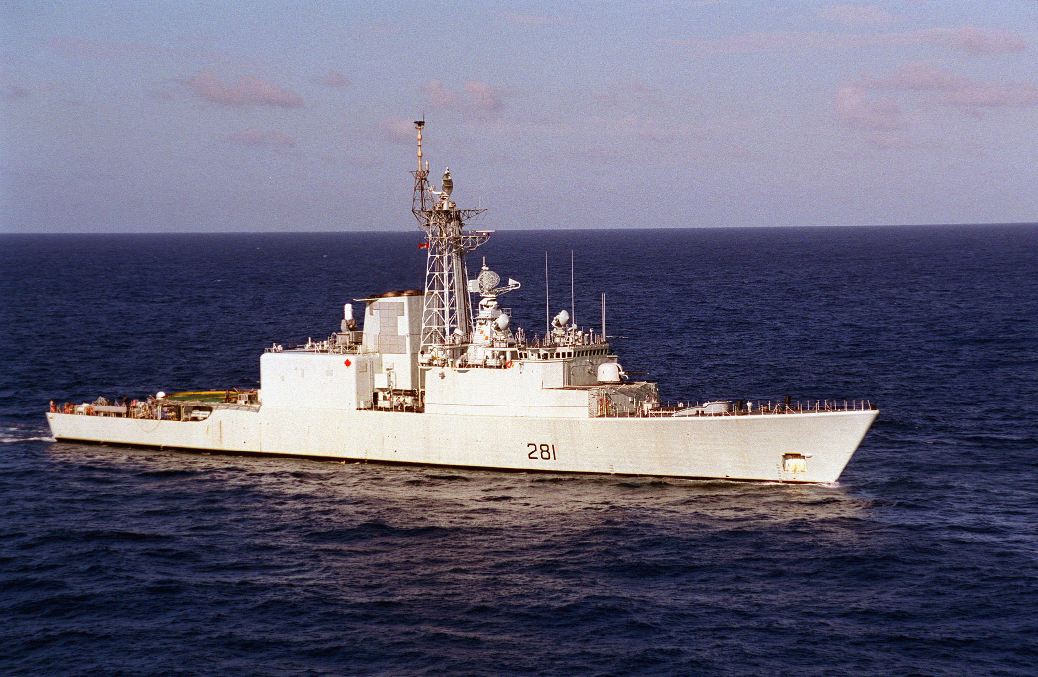 The Canadian destroyer HMCS Huron (DDG 281) steams slowly through the Pacific Ocean where she is operating with other forces for exercise "Tandem Thrust '99".